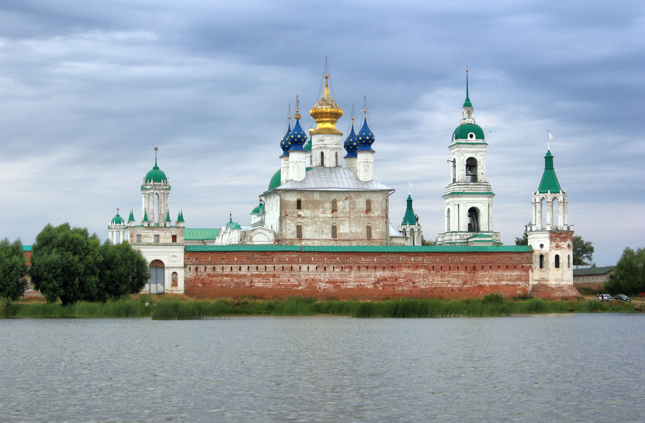 Rostov. Lake Nero. Spaso-Yakovlevsky Monastery